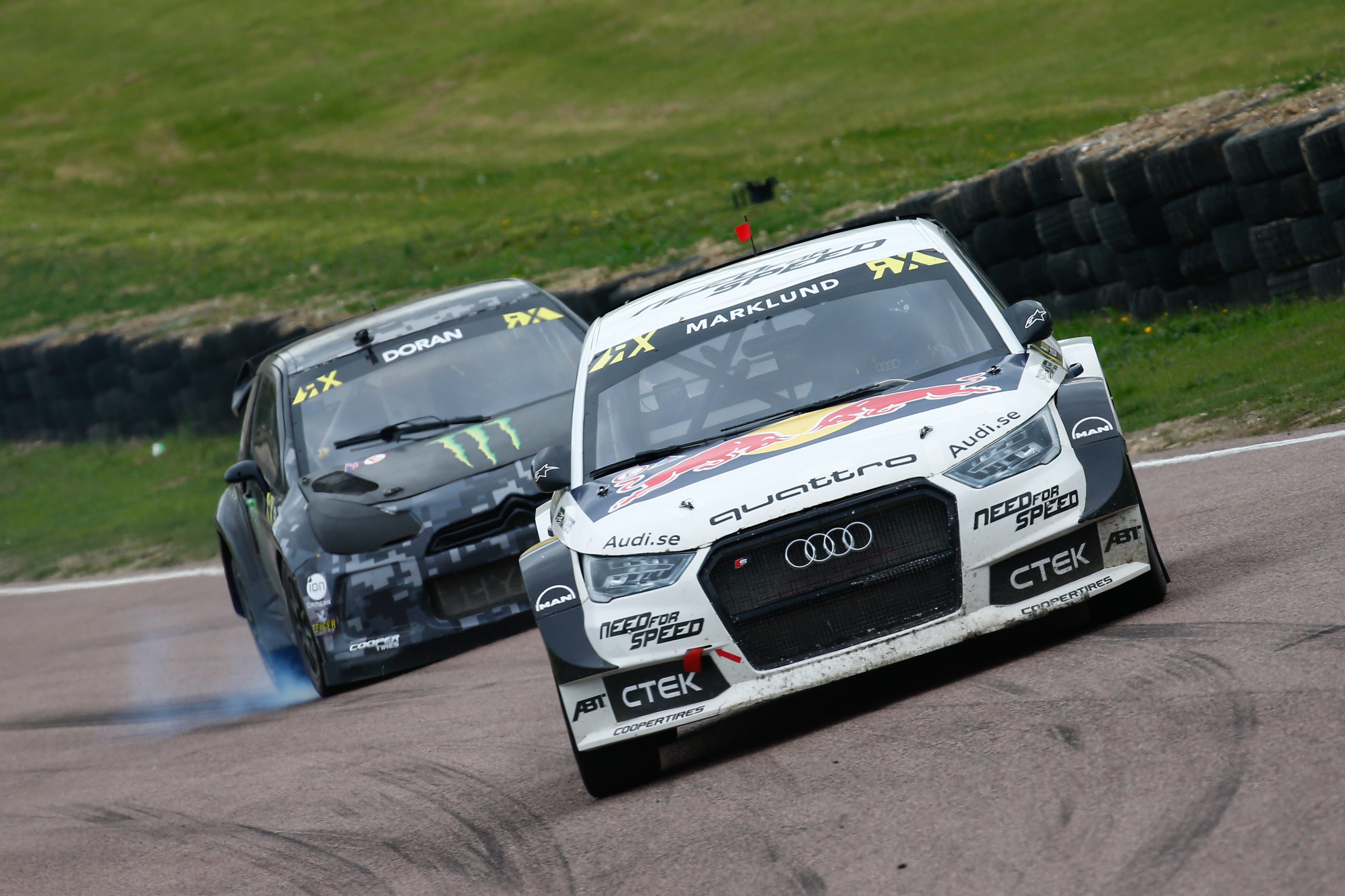 2015 FIA World Rallycross Championship / Round 04, Lydden Hill, GB / May 23-24, 2015 // Worldwide Copyright: Tony Welam/EKS/McKlein